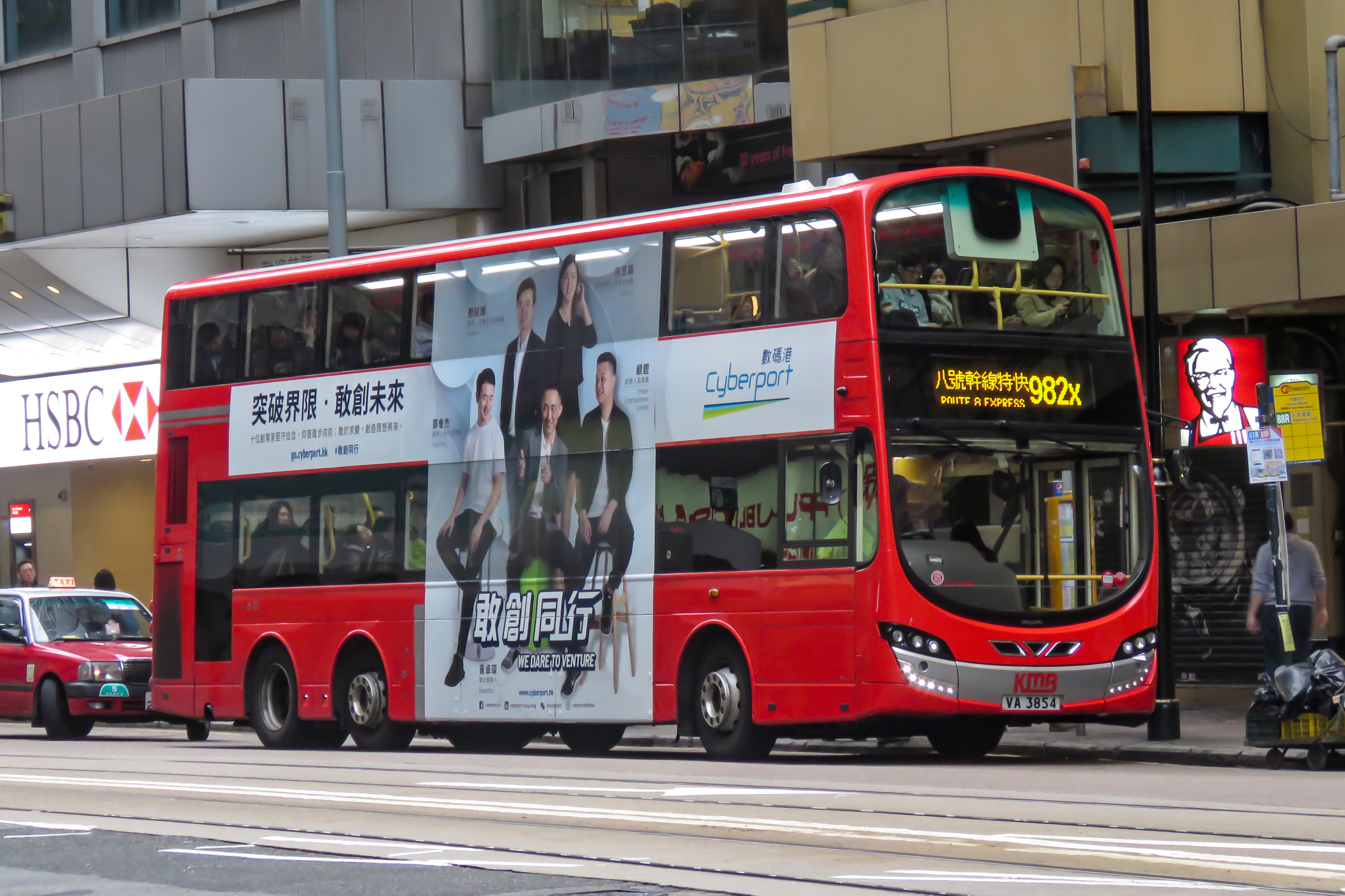 Route 8 Express... what about 980A, 980X, 981P and 985?